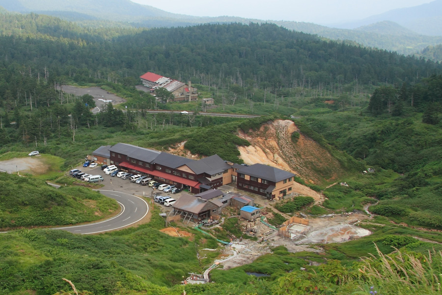 Toshichi Onsen in Towada-Hachimantai National Park